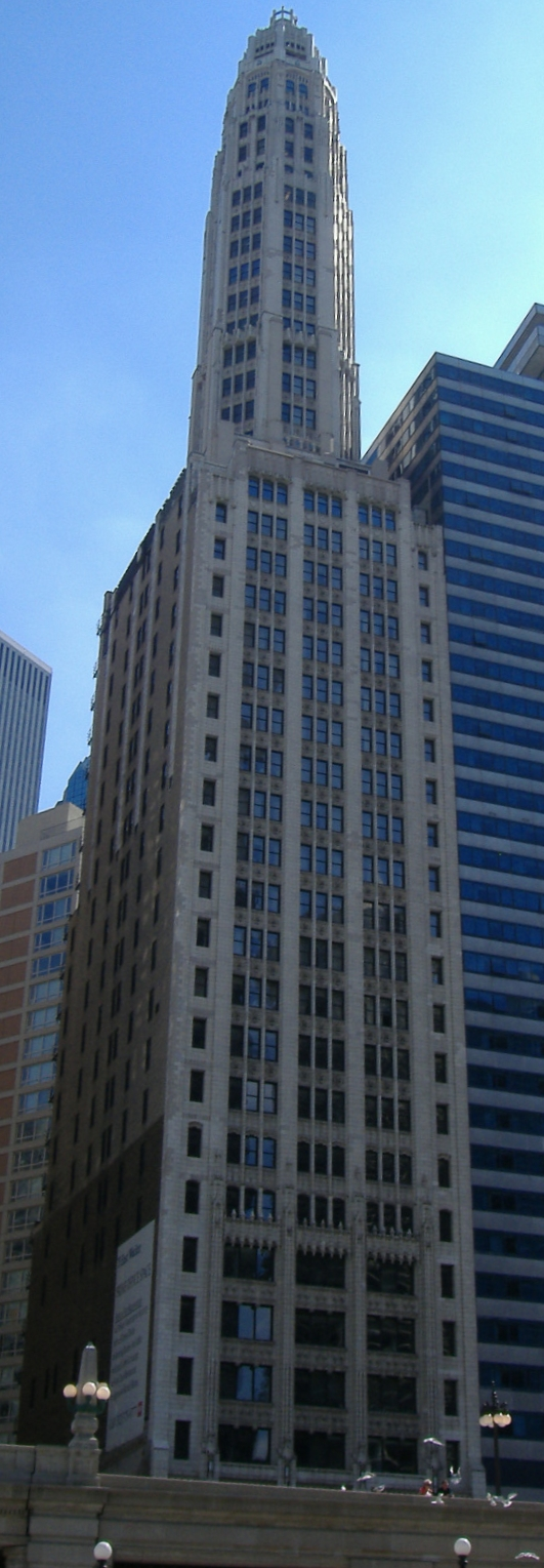 Photo of Mather Tower, Chicago, Ill.